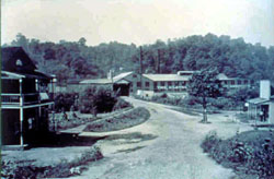 Historic view of the Boston Mills Historic District in Summit County, Ohio, now a part of Cuyahoga Valley National Park.